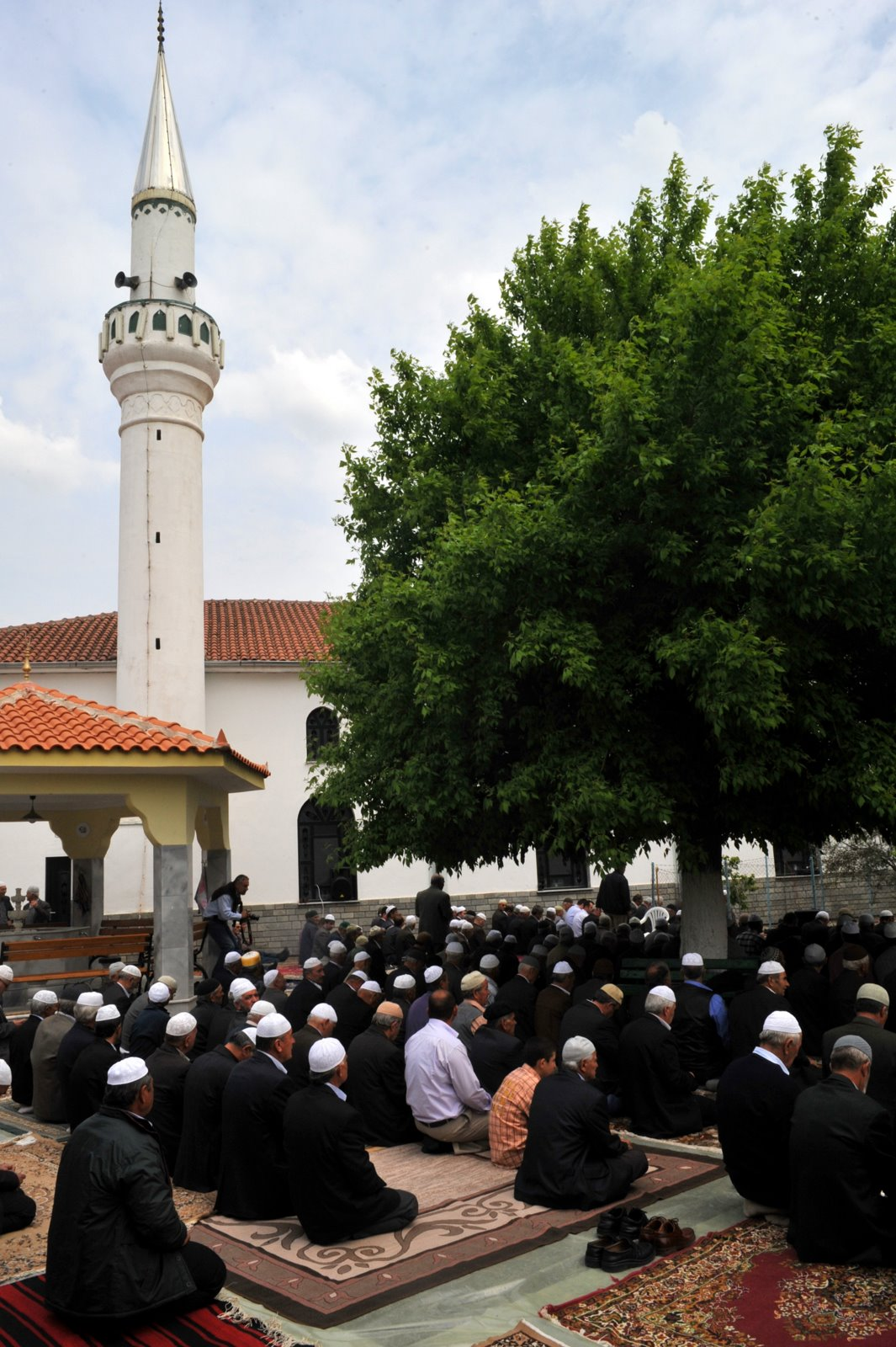 Muslim celebration, Mufti İbrahim Şerif, Filira, Rhodope, Thrace, Greece.